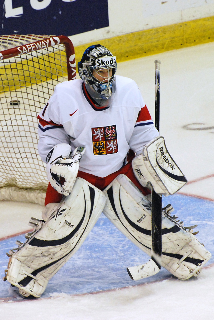 Czech goalkeeper Pavel Francouz during the Czech Republic - Finland match (3:4) at the 2010 World Junior Ice Hockey Championships in Brandt Centre, Regina, Saskatchewan, Canada.